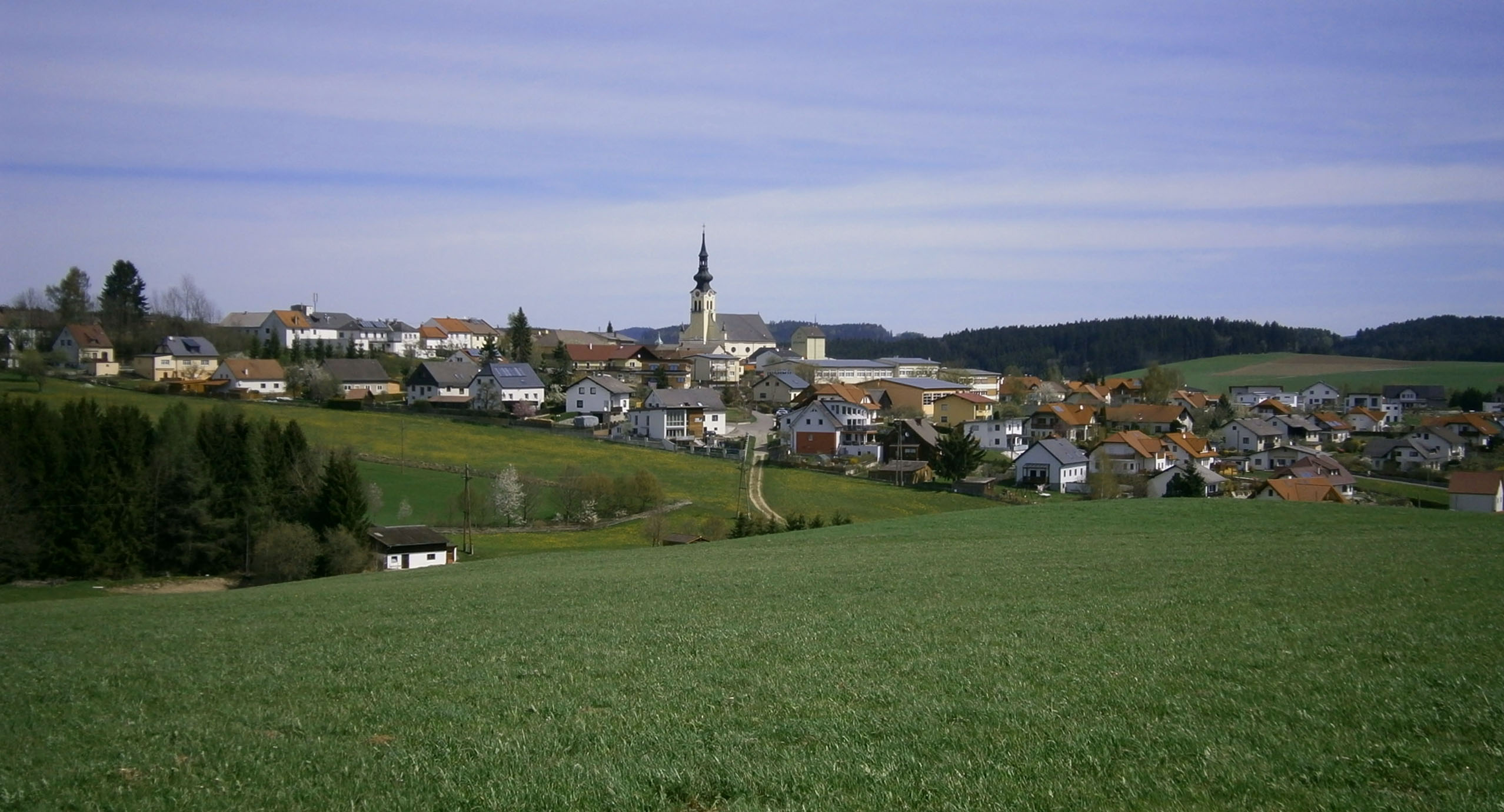 Reichenthal in Upper Austria